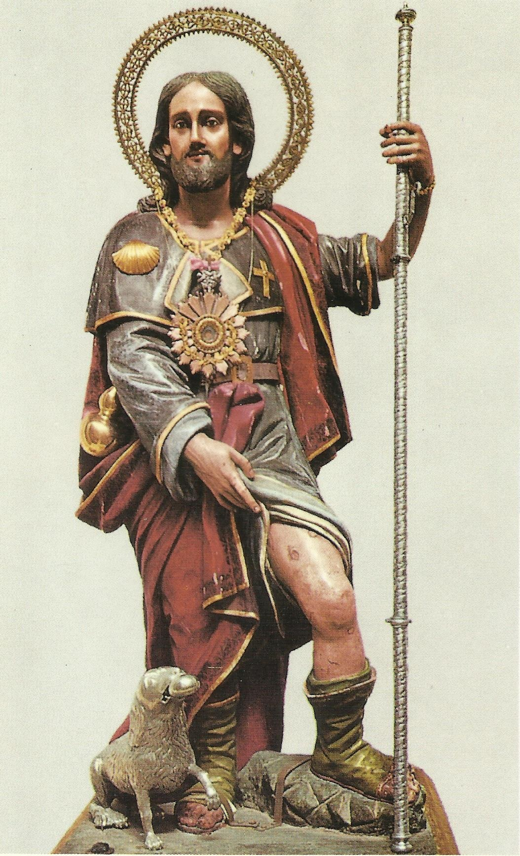 Palmi. Wooden statue of San Rocco, dating from the seventeenth century.